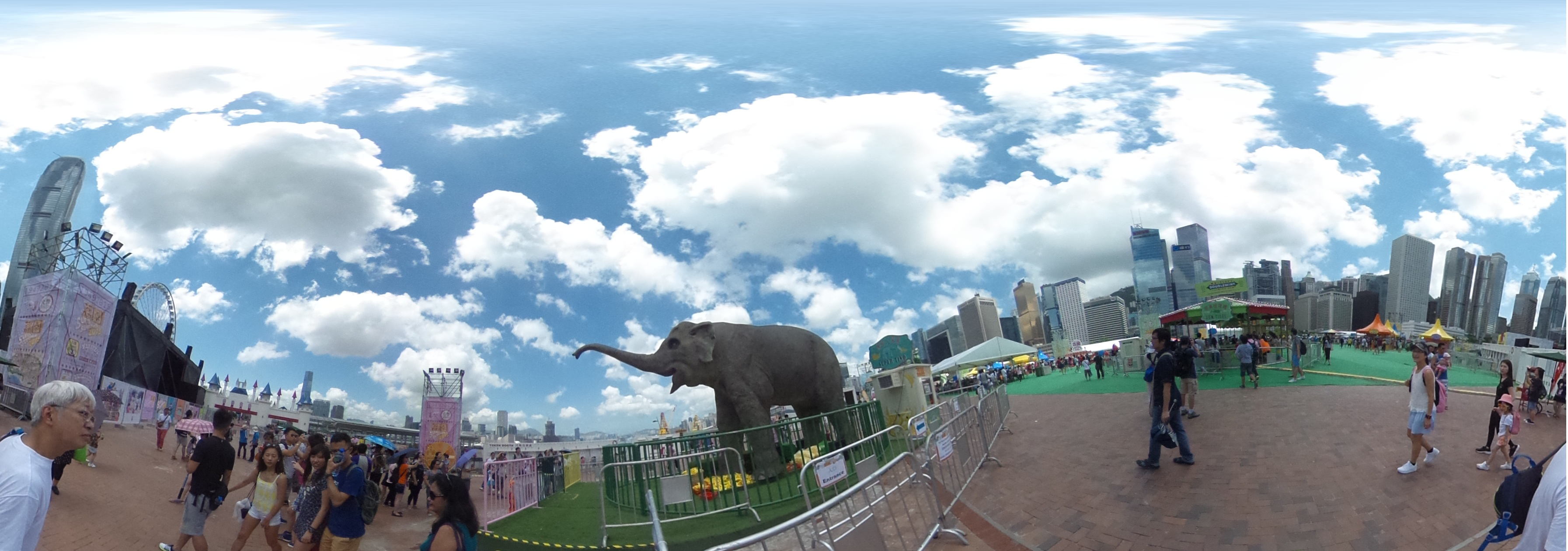 Lai Yuen 荔園 Super Summer 2015 at Central Waterfront Promenade Park, Central, Hong Kong